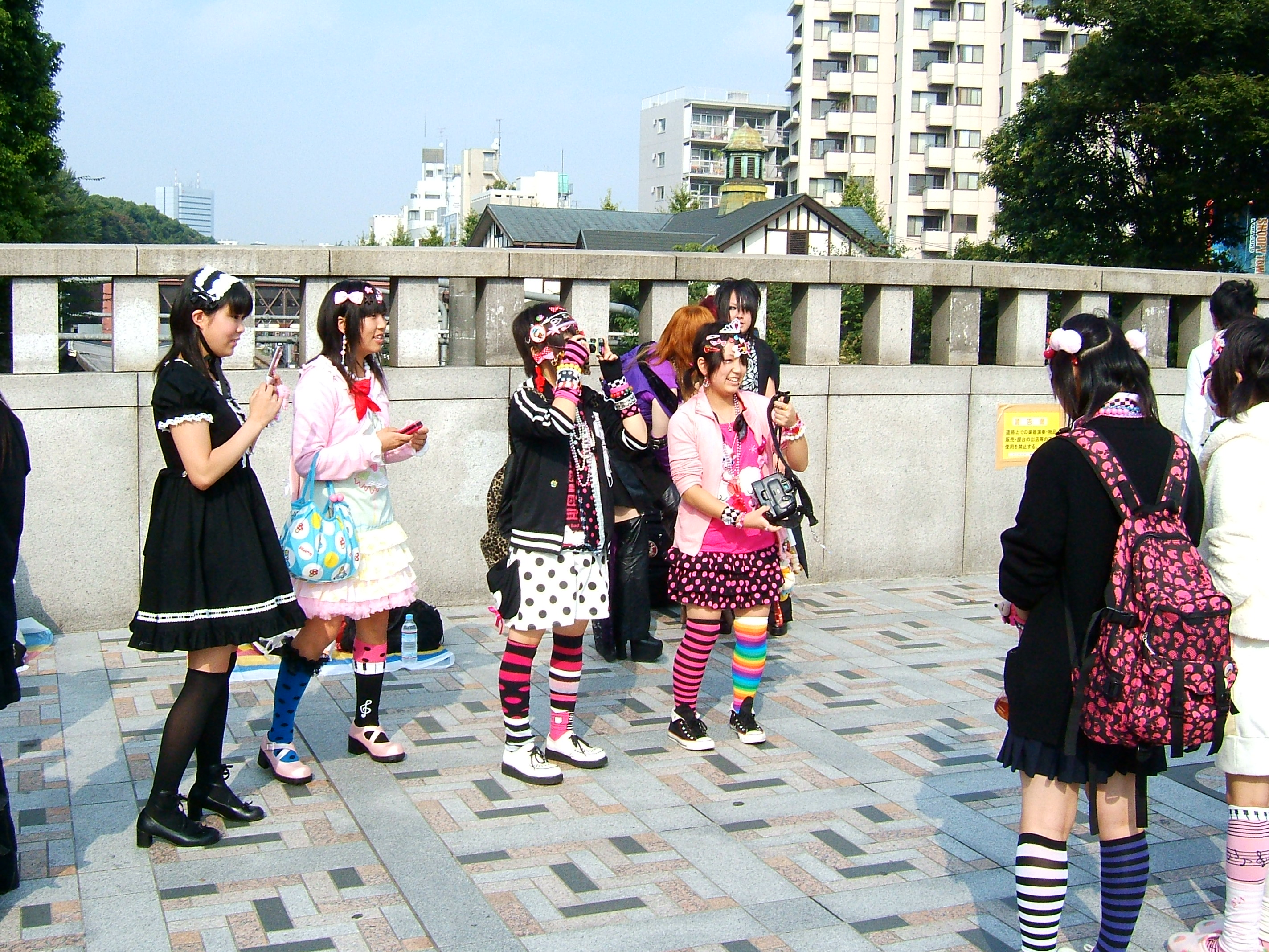 On a sunny Sunday afternoon, gathering at Harajuku station. Picture featured on Wikipedia